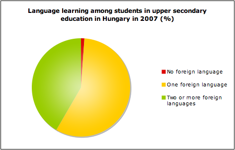 Language learning among students in upper secondary education in Hungary in 2007 (%) - source: Hugarian Central Statisctical Office